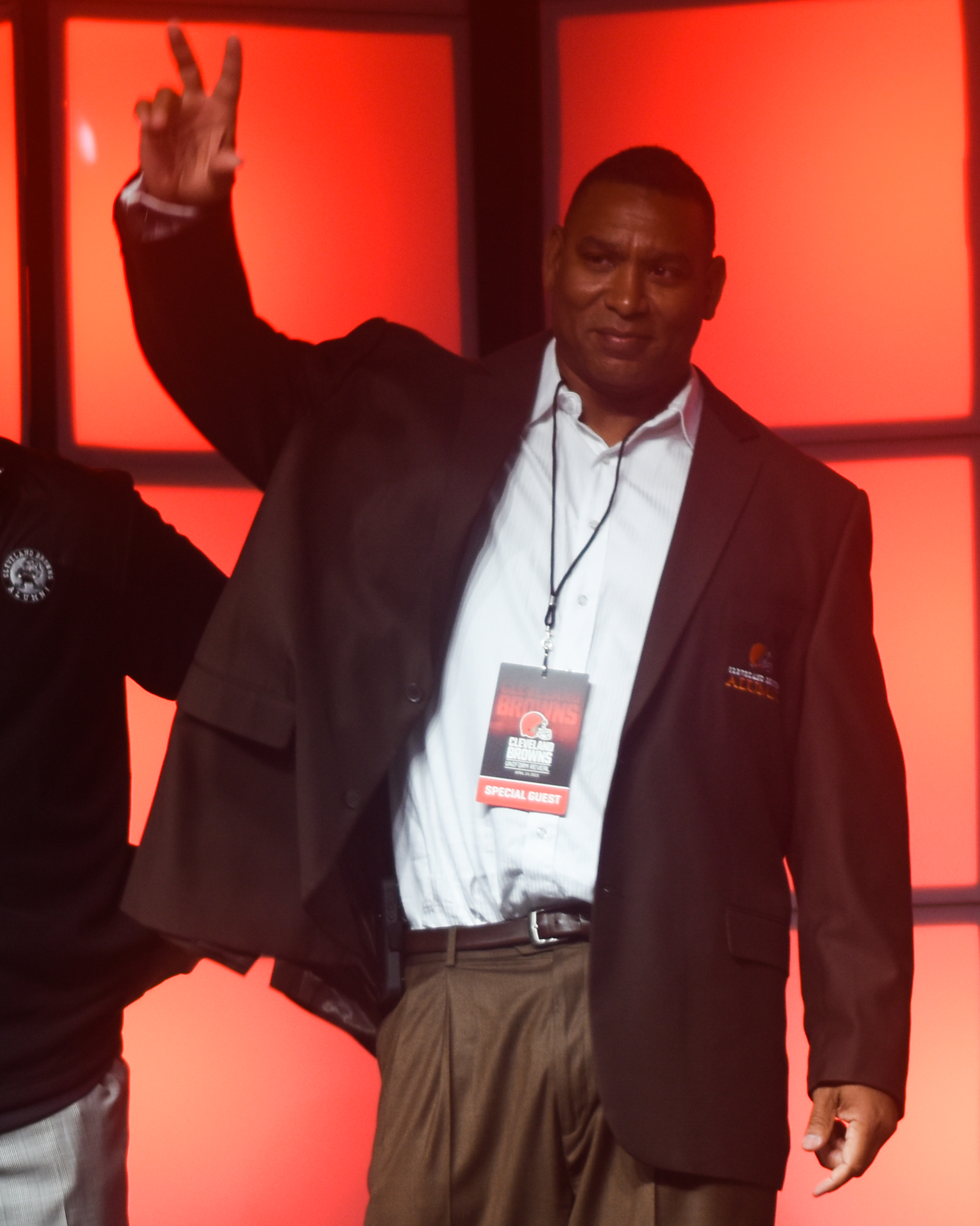 Cleveland Browns New Uniform Unveiling